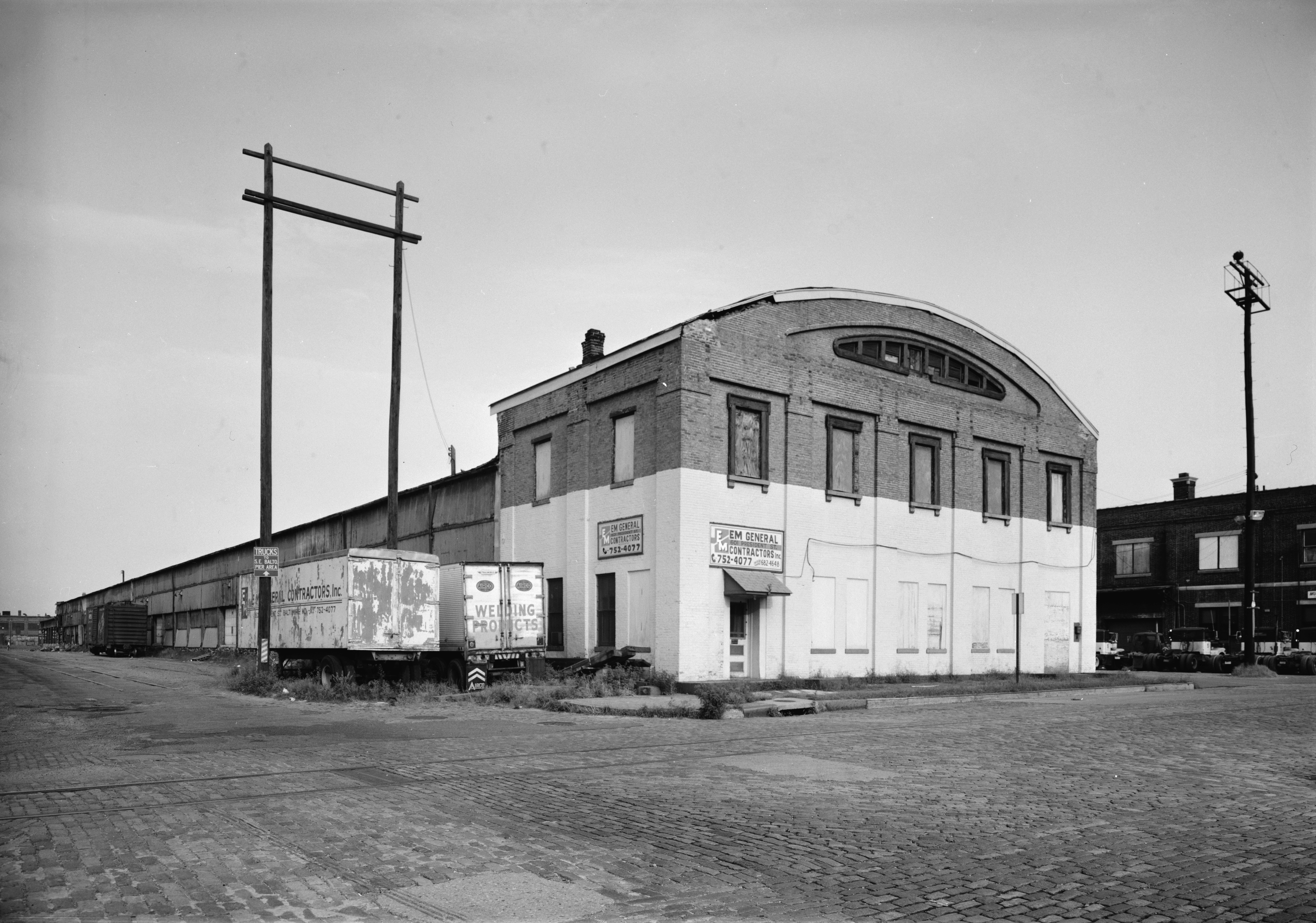 View of President Street Station, Baltimore, Maryland. Looking from the northwest. The station was built by the Philadelphia, Wilmington and Baltimore Railroad (PW&B) in 1850. With the opening of Baltimore Union Station (now called Penn Station) in 1873, the President Street Station became principally a freight station. In the 1970s it was used as a trucking terminal. On the left, behind the head house, is the train shed that was added in 1913 and replaced the original 1850 shed.